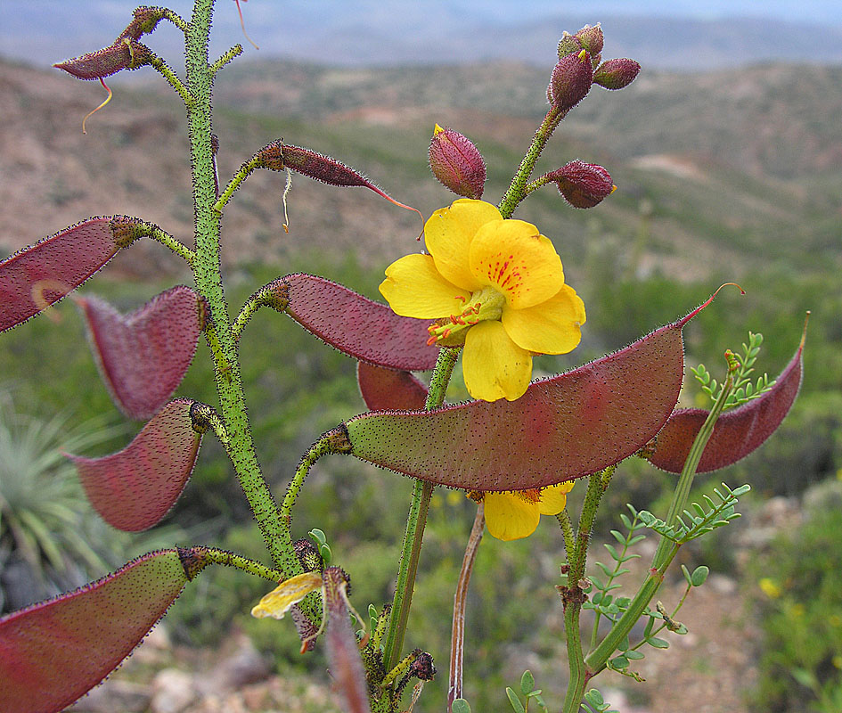 From the Norte Chico of Chile, where it is known as Sanalotodo. In context at